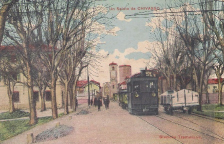 Chivasso, tramway station